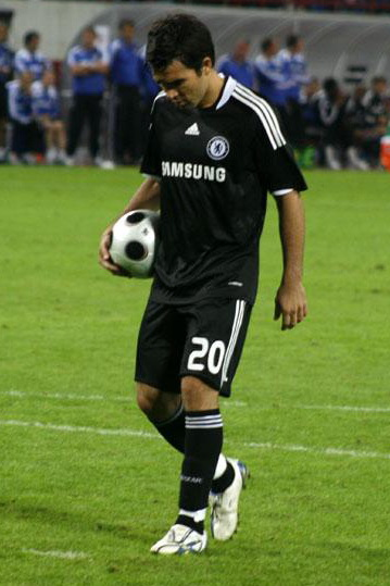 Deco